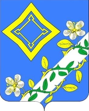 Coat of arms of Ternovskaya, Tijoretsk Raion, Krasnodar Krai, Russia